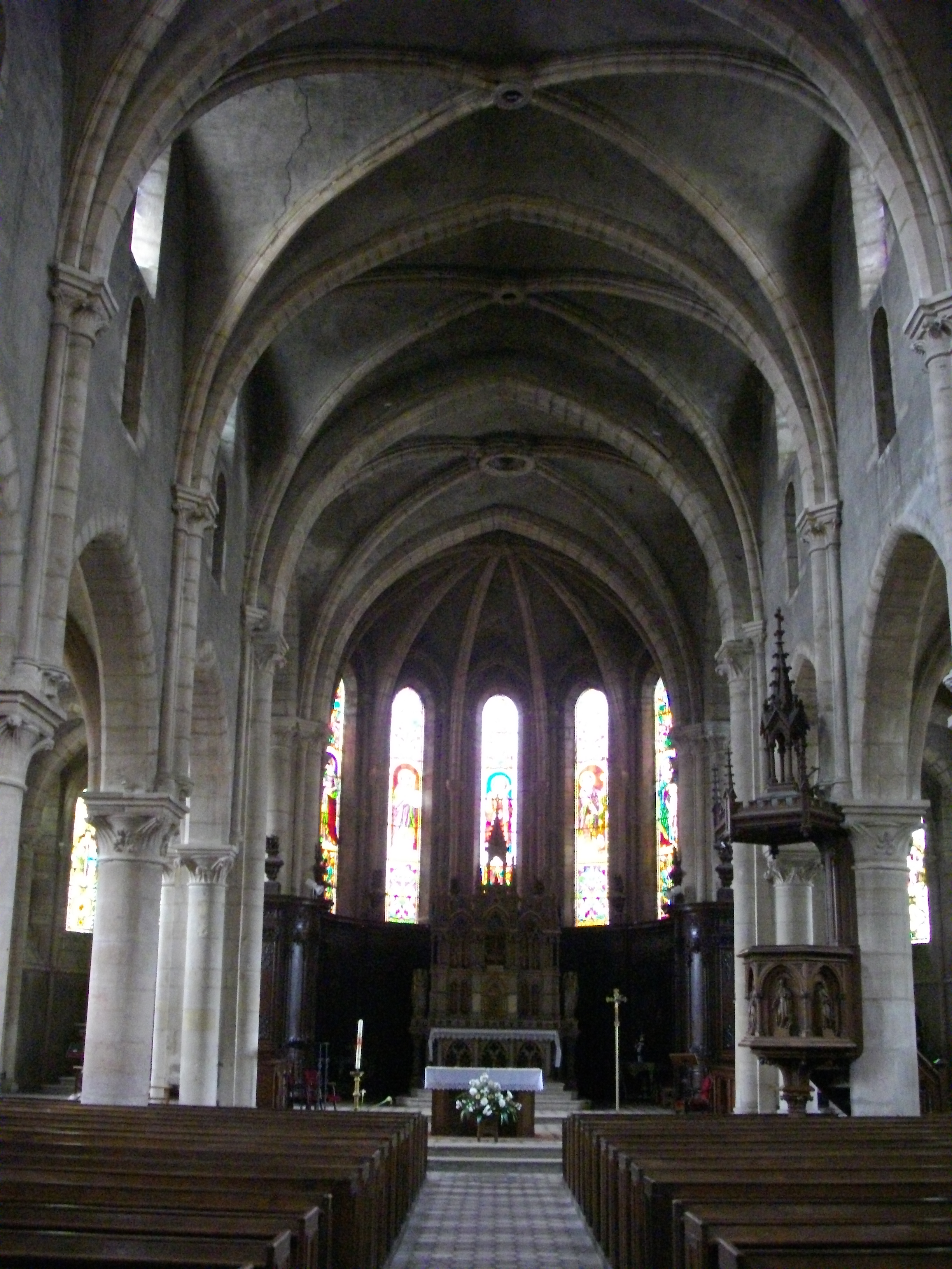 Saint Stephen collegiate church of Gorze (Moselle, France). Nave .